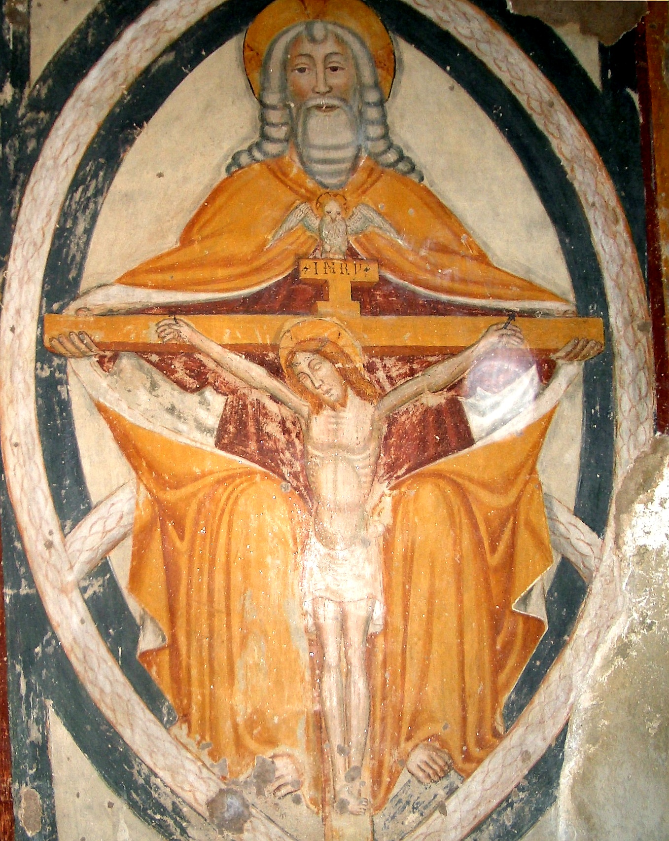 Unknown painter, “Trinity”, fresco, Quinto Vercellese (Vercelli, Italy), Castello Avogadro’s Castle, St. Peter's chapel, XV century